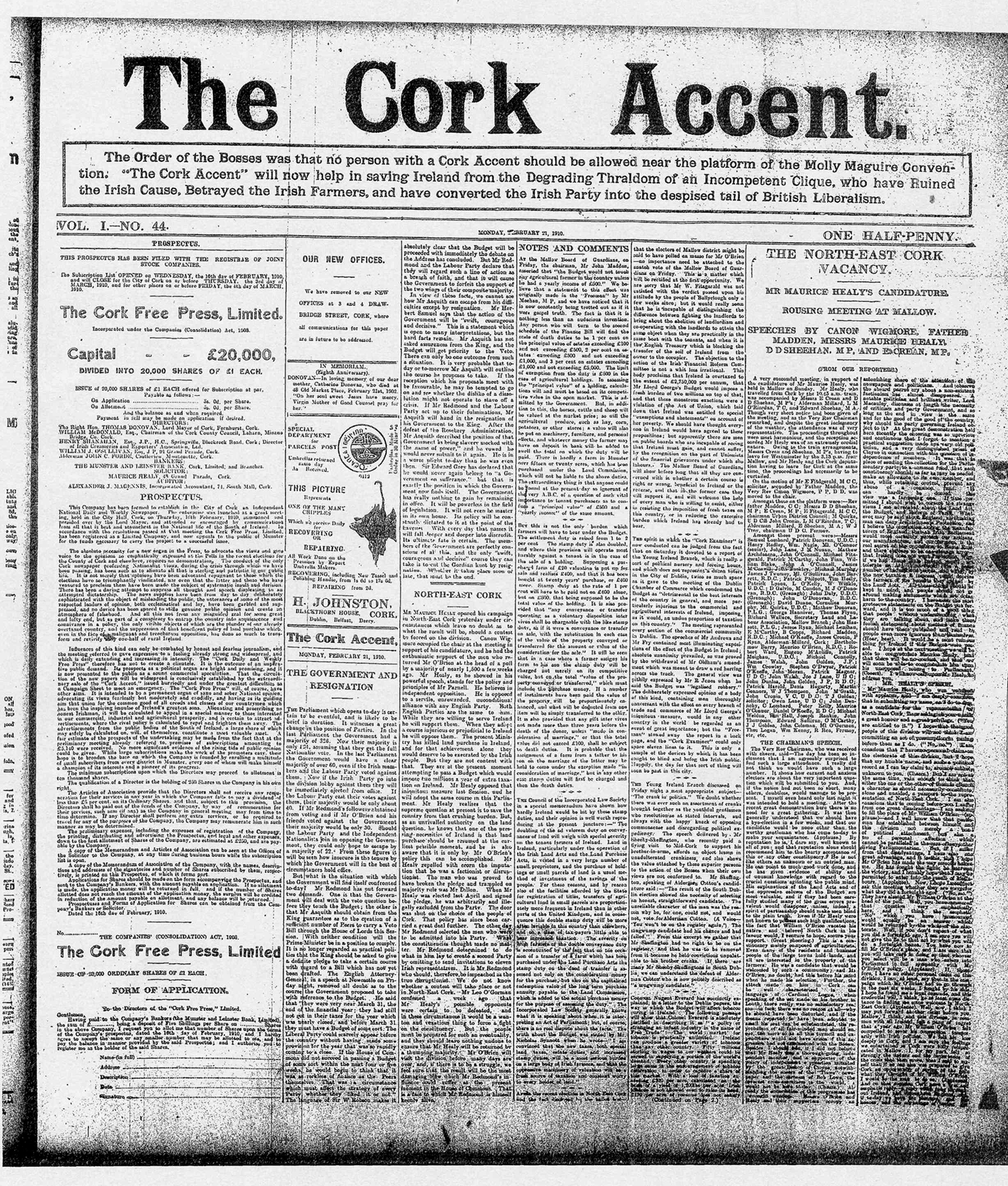 Image is an example of the front page of The Cork Accent, a defunkt Irish weekly newspaper published by William O’Brien MP between the 1 January 1910 and the 10 June 1910, the second of three newspapers he published in the years 1899 to 1916.